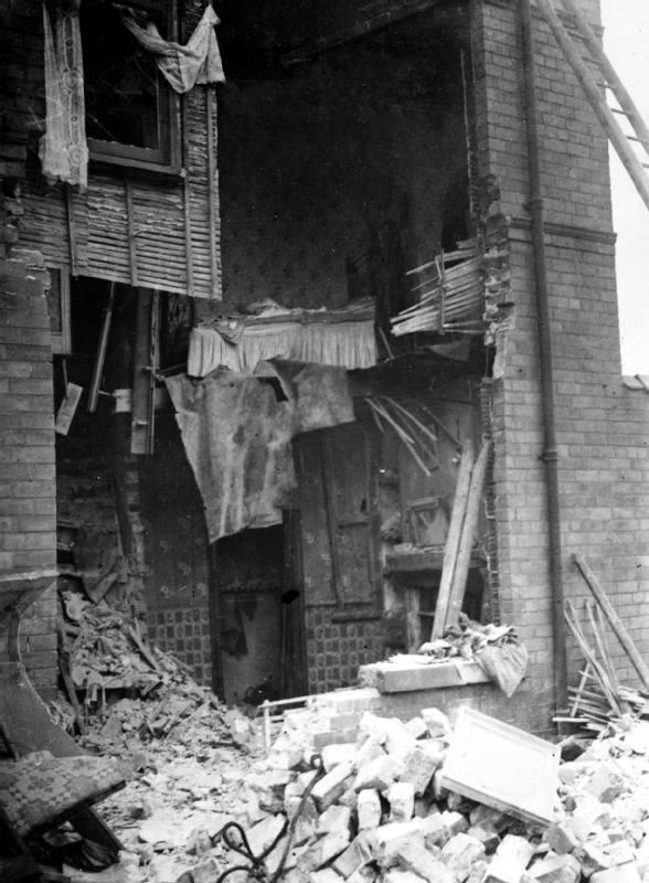 The remains of a house in Scarborough where five members of the Bennett family were killed as a result of the raid on Scarborough by vessels of the 1st Scouting Group of the German High Seas Fleet, commanded by Admiral Franz von Hipper, on 16 December 1914.